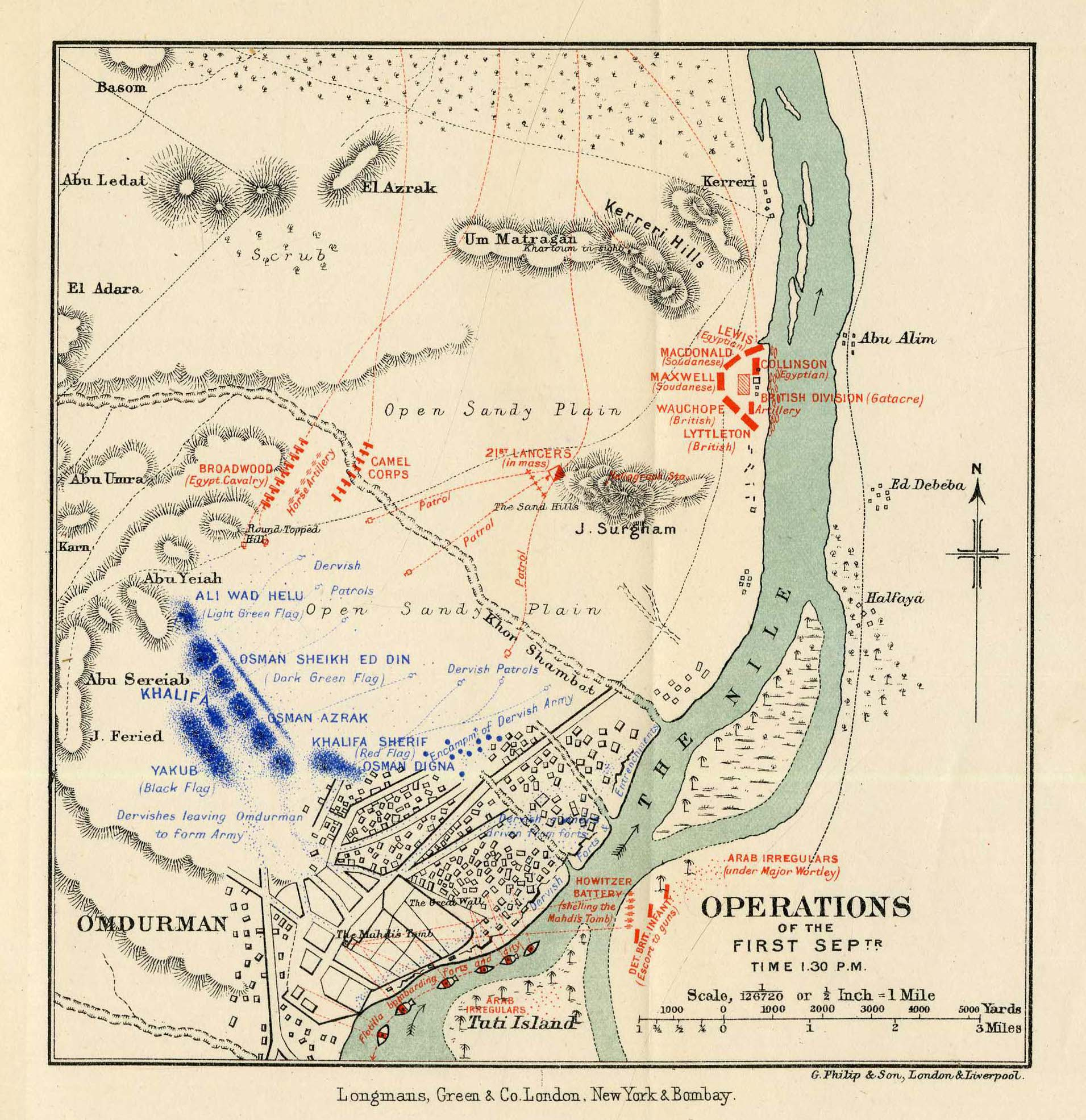 The Battle of Omdurman Action on 1st September, 1:30 pm